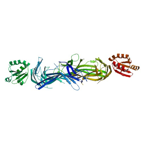 L'estructura del complex TRX-TXNIP.